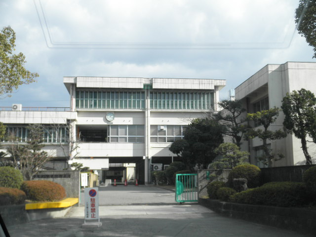 Hachimanminami Elementary School